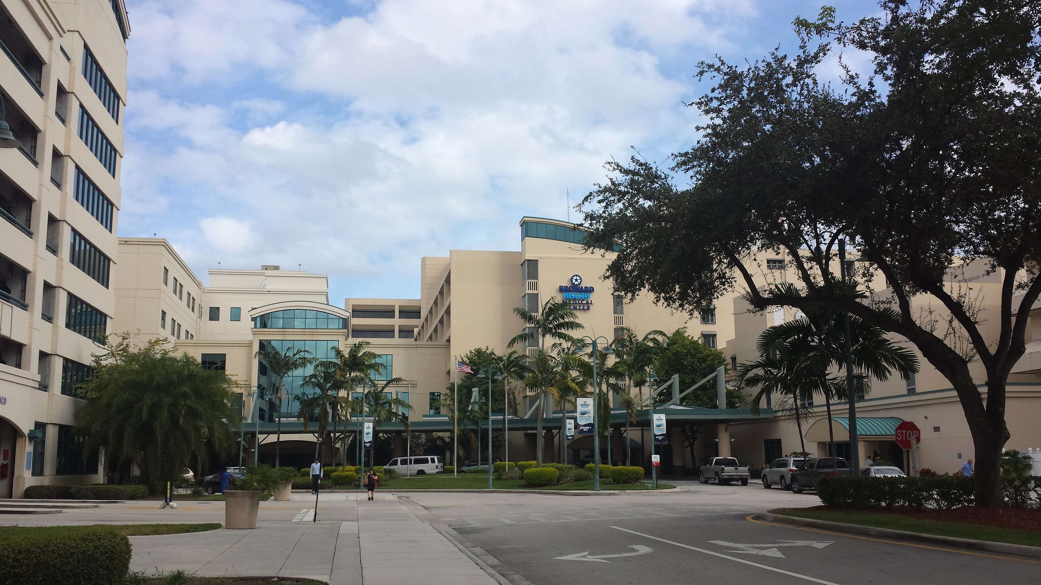 This is a photograph of Broward Health Medical Center, a hospital located in Fort Lauderdale, Florida.